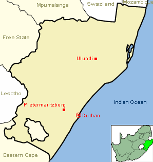 KwaZulu-Natal Durban Map